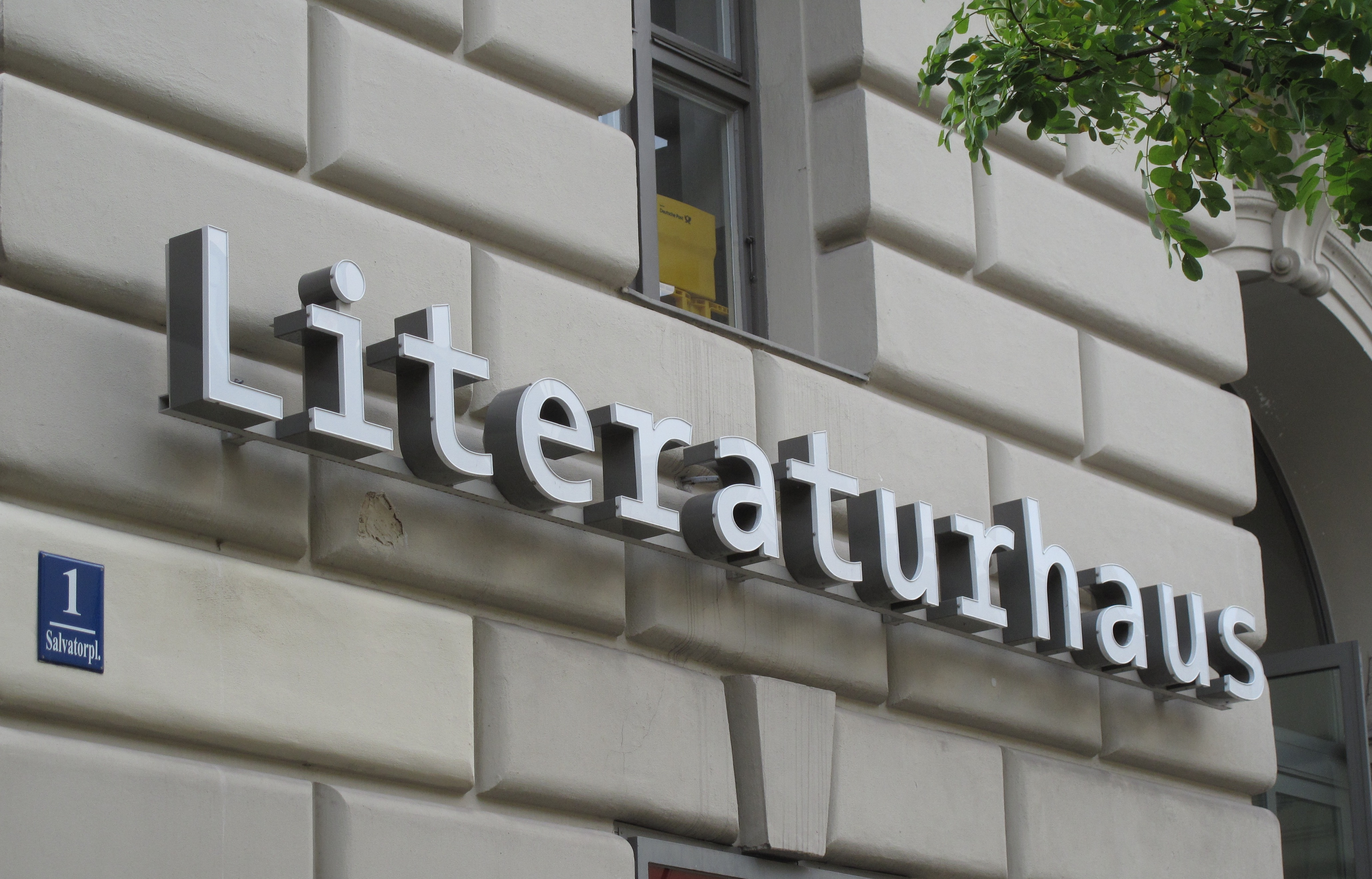 The Literaturhaus (literature house) in Munich at the Salvatorplatz in the city centre.